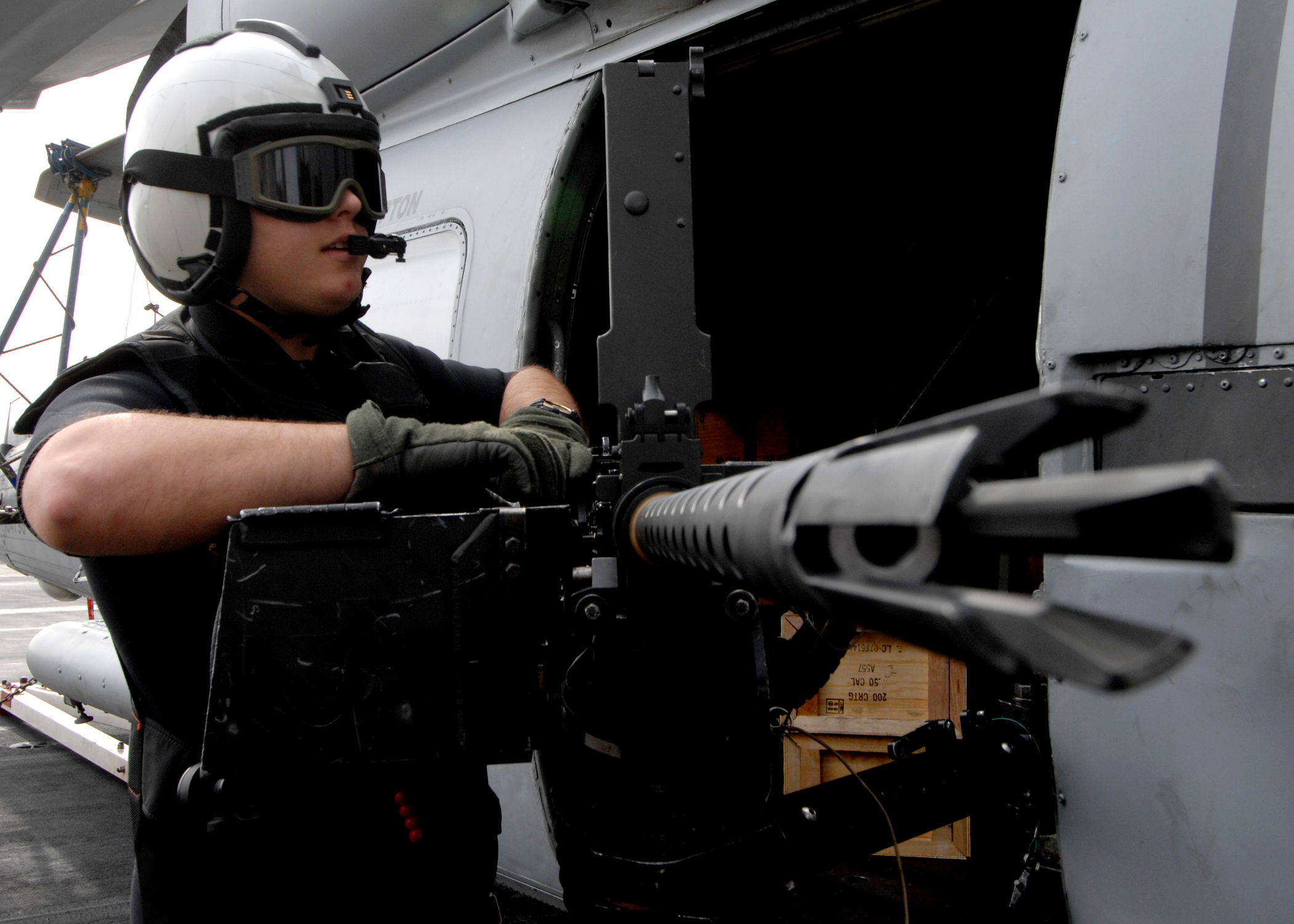 ATLANTIC OCEAN (Jan. 24, 2009) Aviation Warfare Systems Operator 3rd Class David Bellows, assigned to the "Nightdippers" of Helicopter Anti-submarine Squadron (HS) 5 performs maintenance on a .50-caliber crew-served weapon aboard the aircraft carrier USS Dwight D. Eisenhower (CVN 69) during the Carrier Strike Group 8 Composite Unit Training Exercise (COMPTUEX). COMPTUEX is a training exercise to test capabilities and ensure readiness before a deployment. (U.S. Navy photo by Mass Communication Specialist 3rd Class Holly Whitfill/Released)